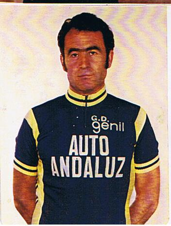 Jesús Ángel Camarero. Genil-Auto Andaluz